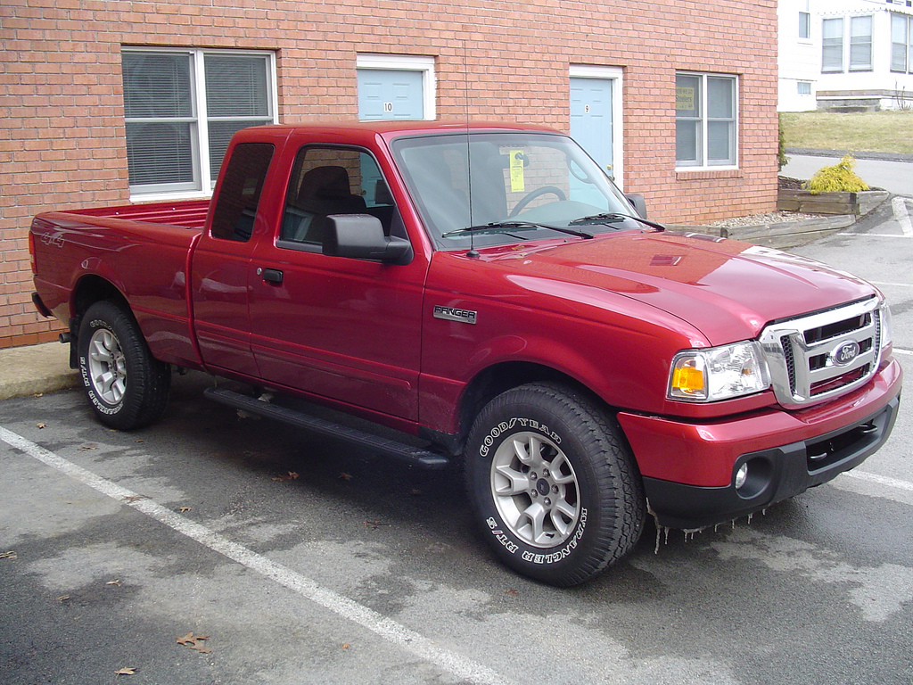 2009 North American Ford Ranger